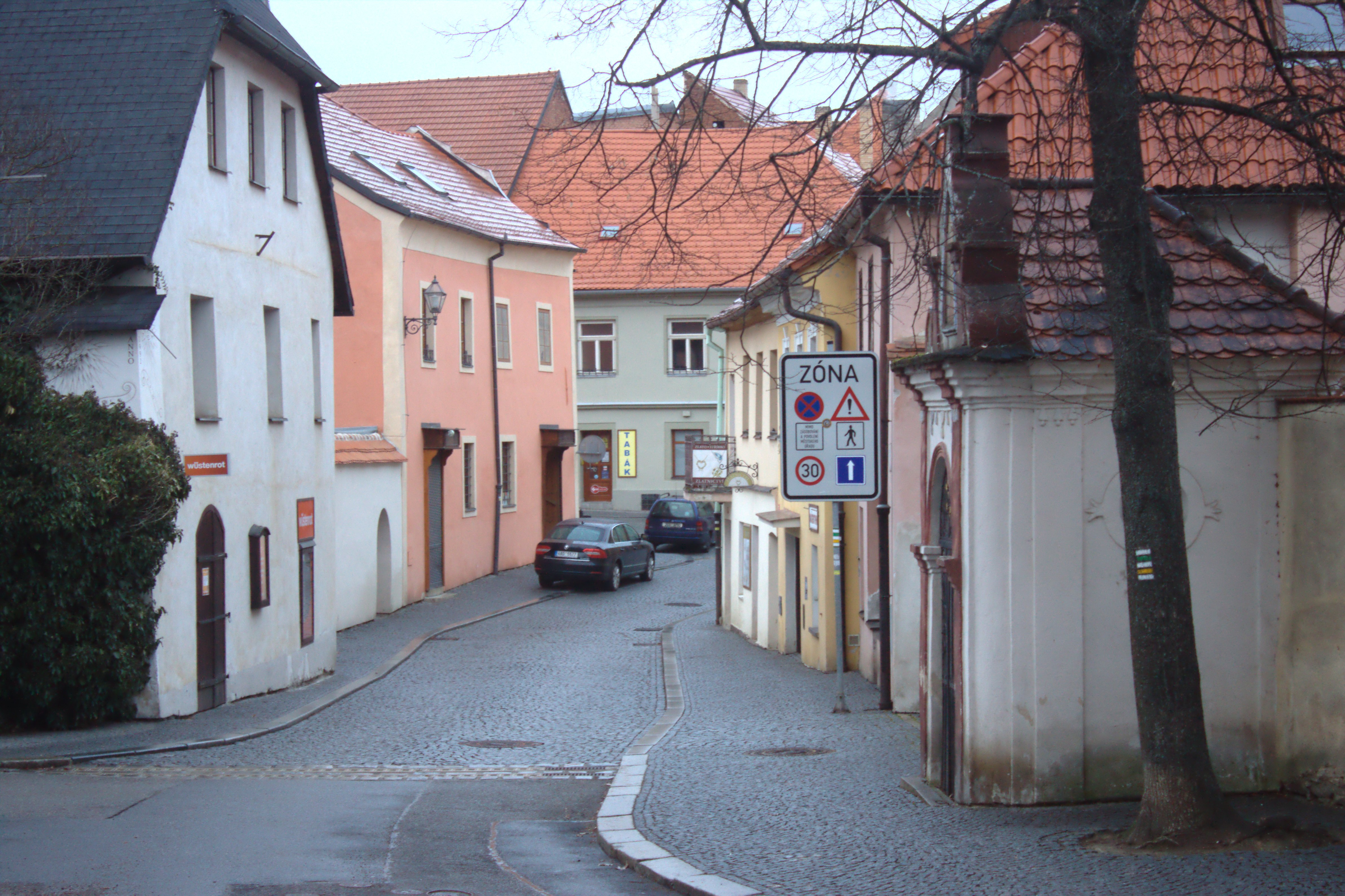 This image was created as a part of Editaton Prachatice (Czech).